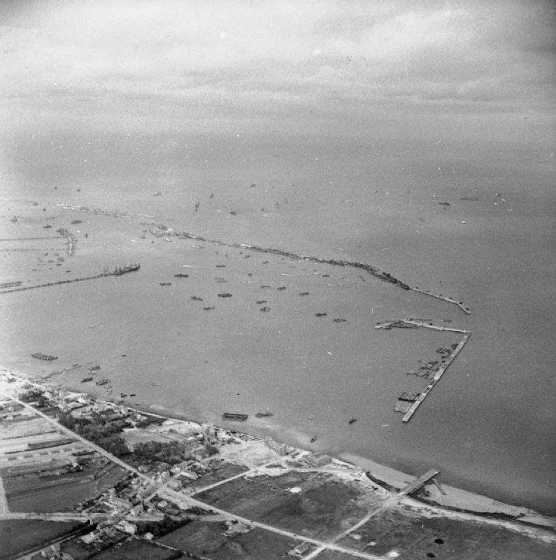 The British Army in North-west Europe 1944-45 Aerial view of the Mulberry B (Goosberry 3) artificial harbour at Arromanches, September 1944.